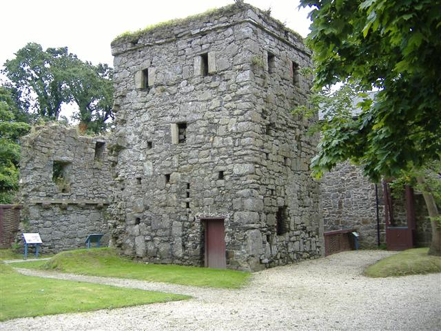 Rushen Abbey / Ballasalla. Undergoing extensive archaeological excavations at the moment, a visitor centre opened recently encompassing the grounds of this Sauvignac/Cistercian Abbey. The lands were granted by King Olaf 1st in 1134. Much of the stones of the Abbey were used to build cottages in Ballasalla.